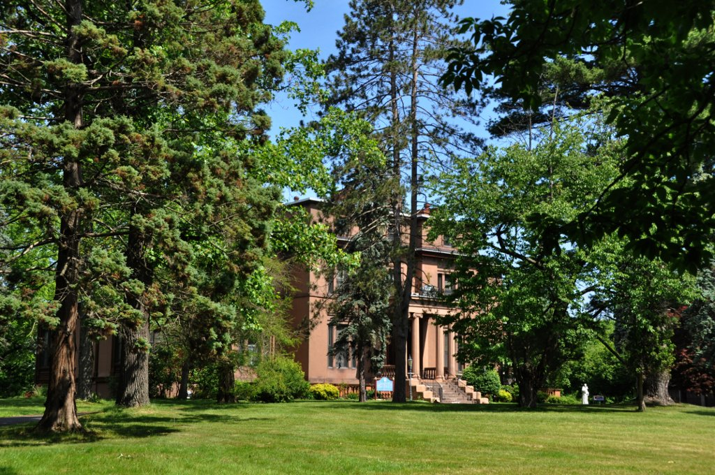 Beverwyck Manor in Rensselaer, New York (now part of a Roman Catholic friary).